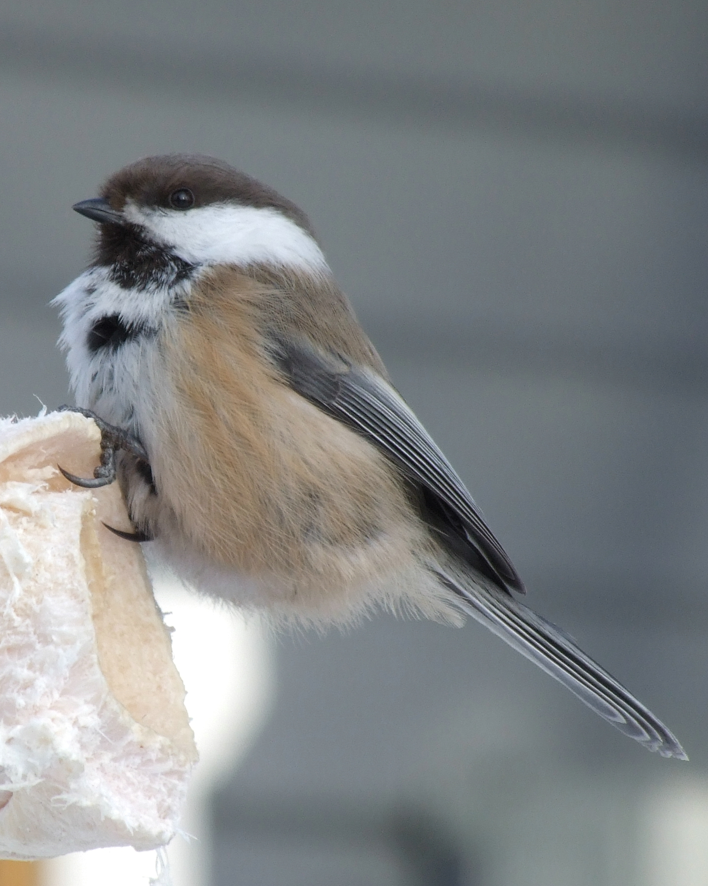 Siberian Tit (Parus cinctus or Poecile cincta) in Kittilä, Finland. Camera: Fujifilm FinePix S9500.